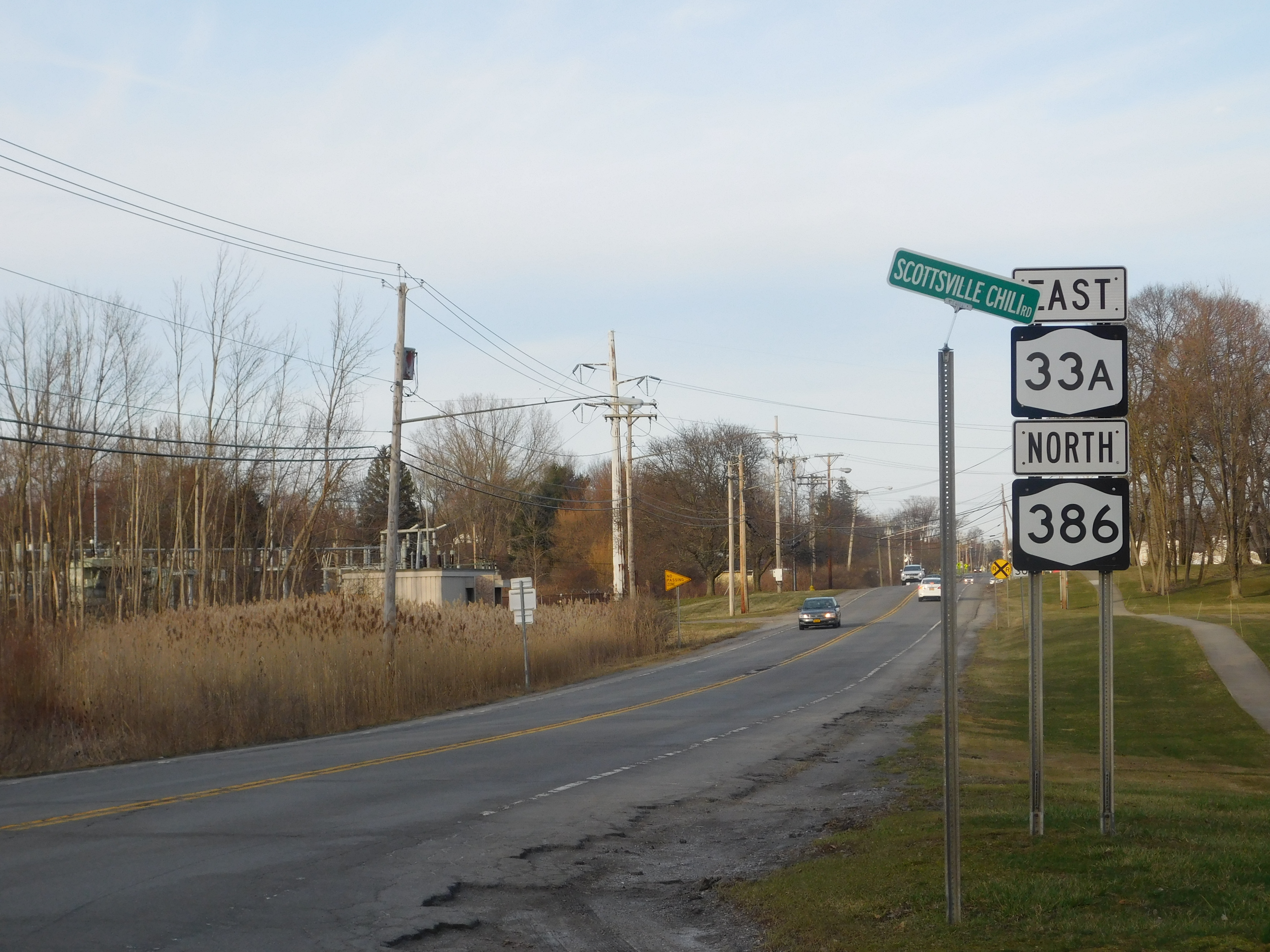 New York State Routes 33A and 386 in Chili, New York.